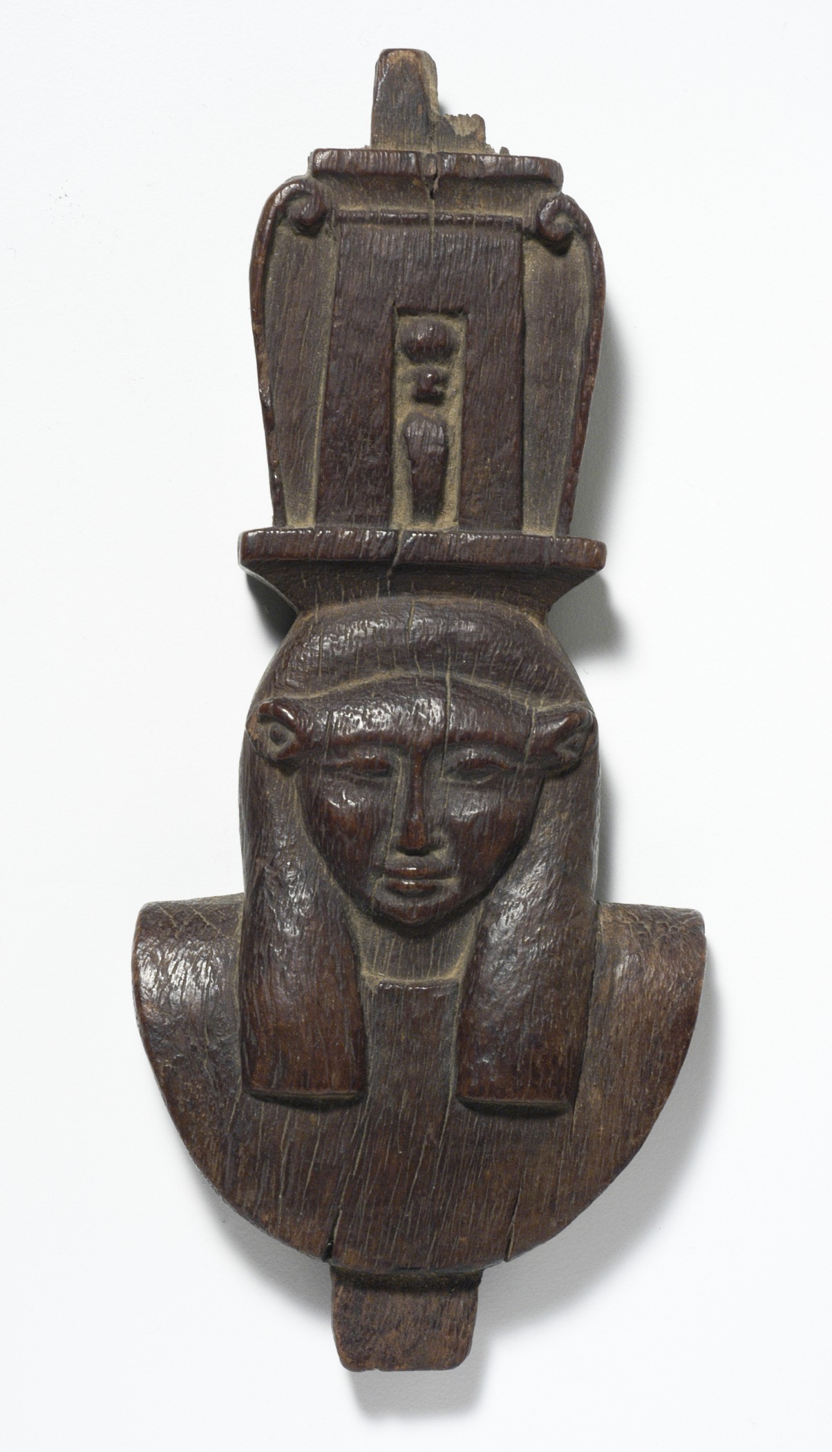 Egypt, 16th Dynasty (circa 1665 - 1600 BCE) Sculpture Cedar, carved Height: 5 3/4 in. (14.61 cm) William Randolph Hearst Foundation (50.4.9) Egyptian Art